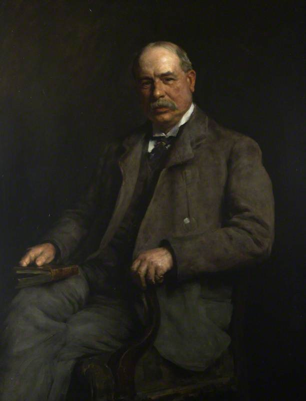 Painting of William Livingstone Watson of Ayton